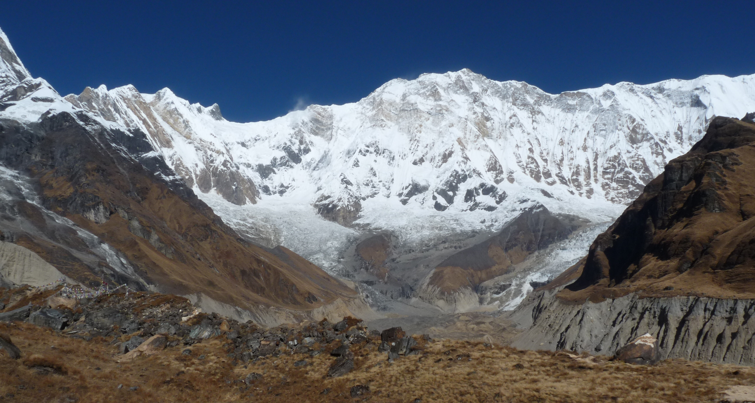 The mountain view from Annapurna Base Camp, Nepal., Annapurna.